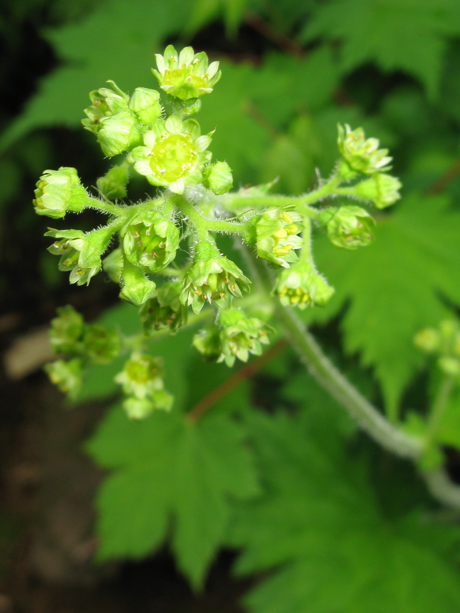 Boykinia lycoctonifolia, flowers, Mt. Hiuchigatake, Fukushima pref., Japan